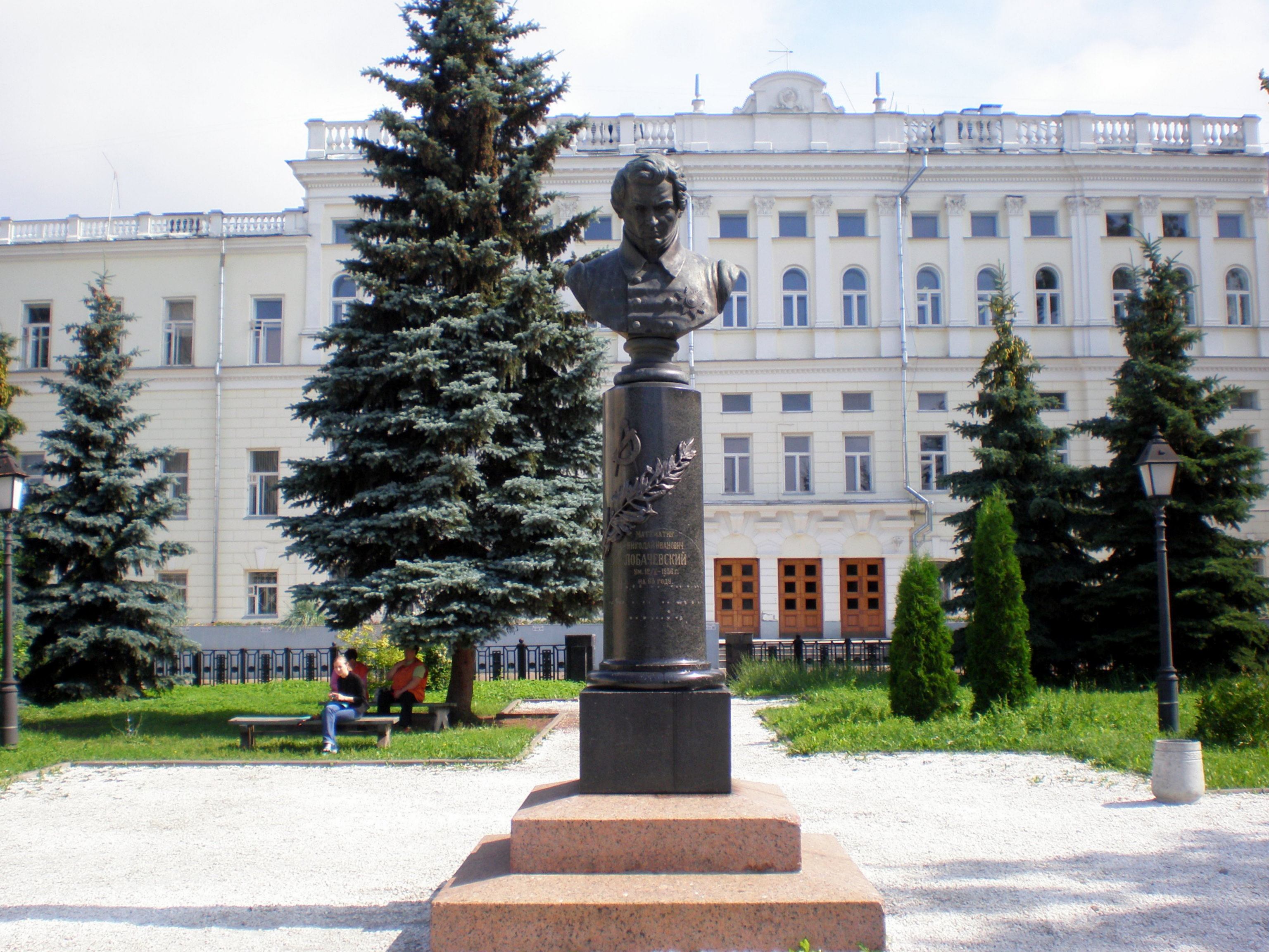 Lobachevsky bust, Kazan University